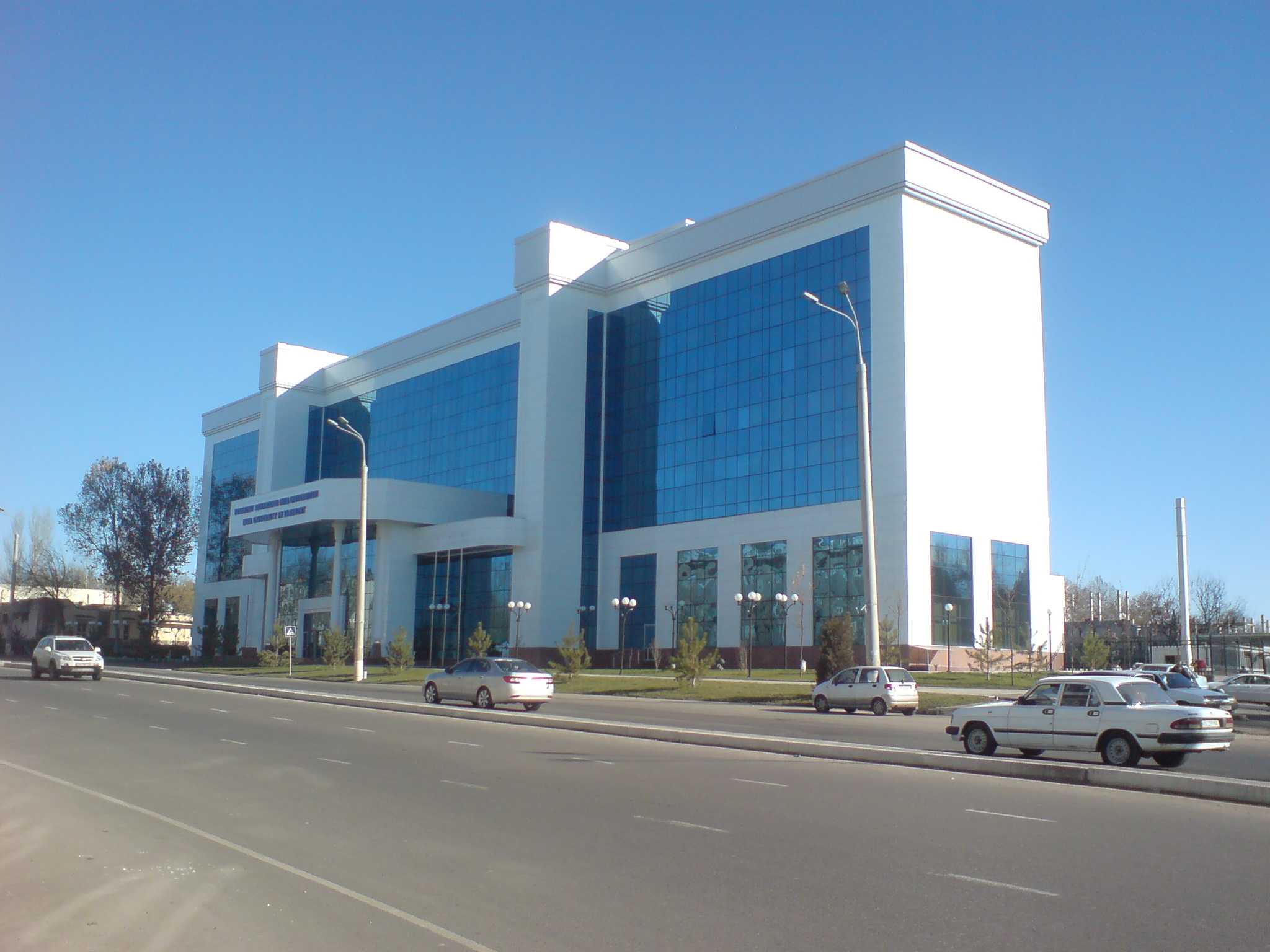 Ziyolilar street, Inha University Tashkent